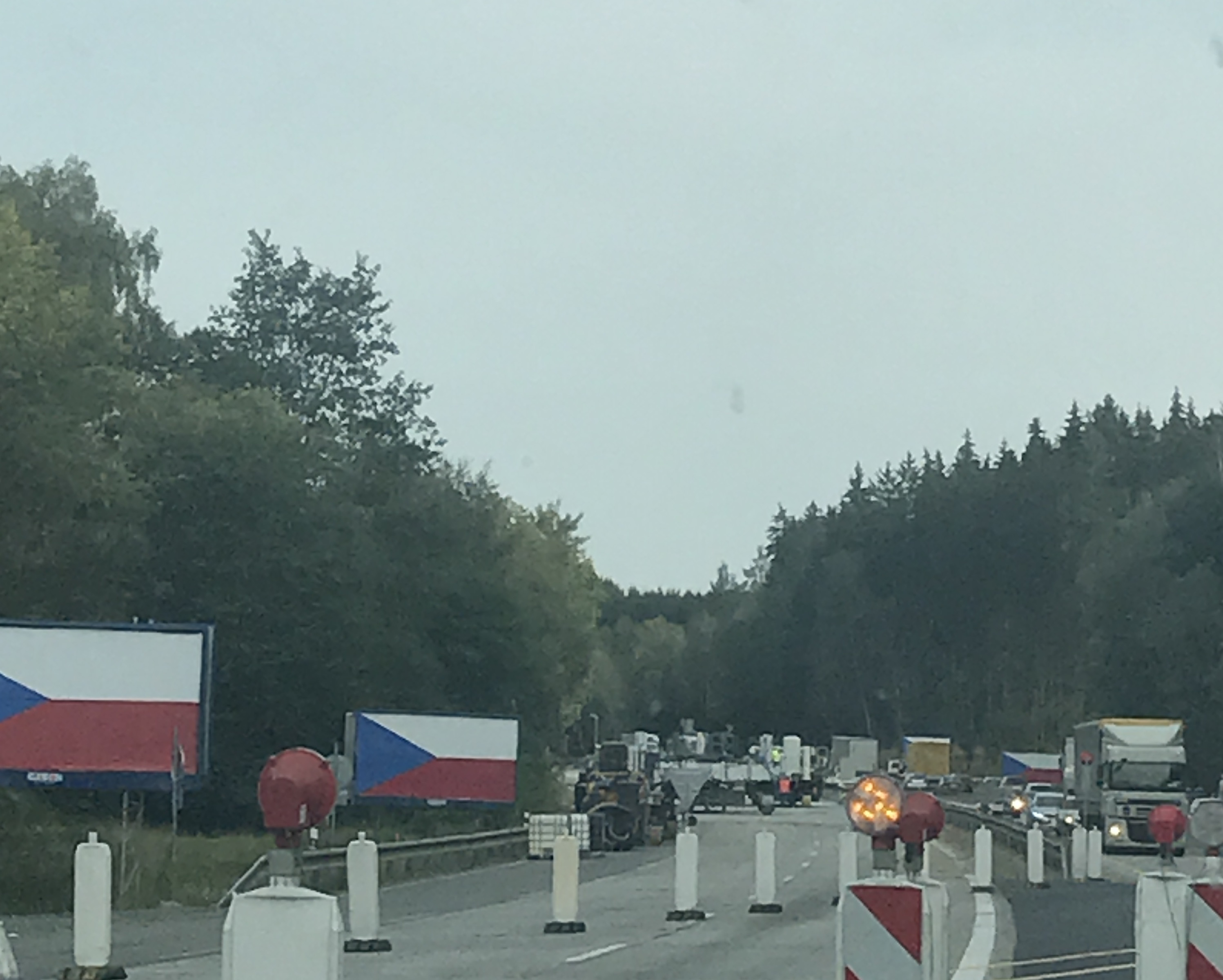 Czech flags, billboards – highway D1 between Czech cities Brno and Prague. Flags are protest against new law banning billboards in Czech Republic except cities